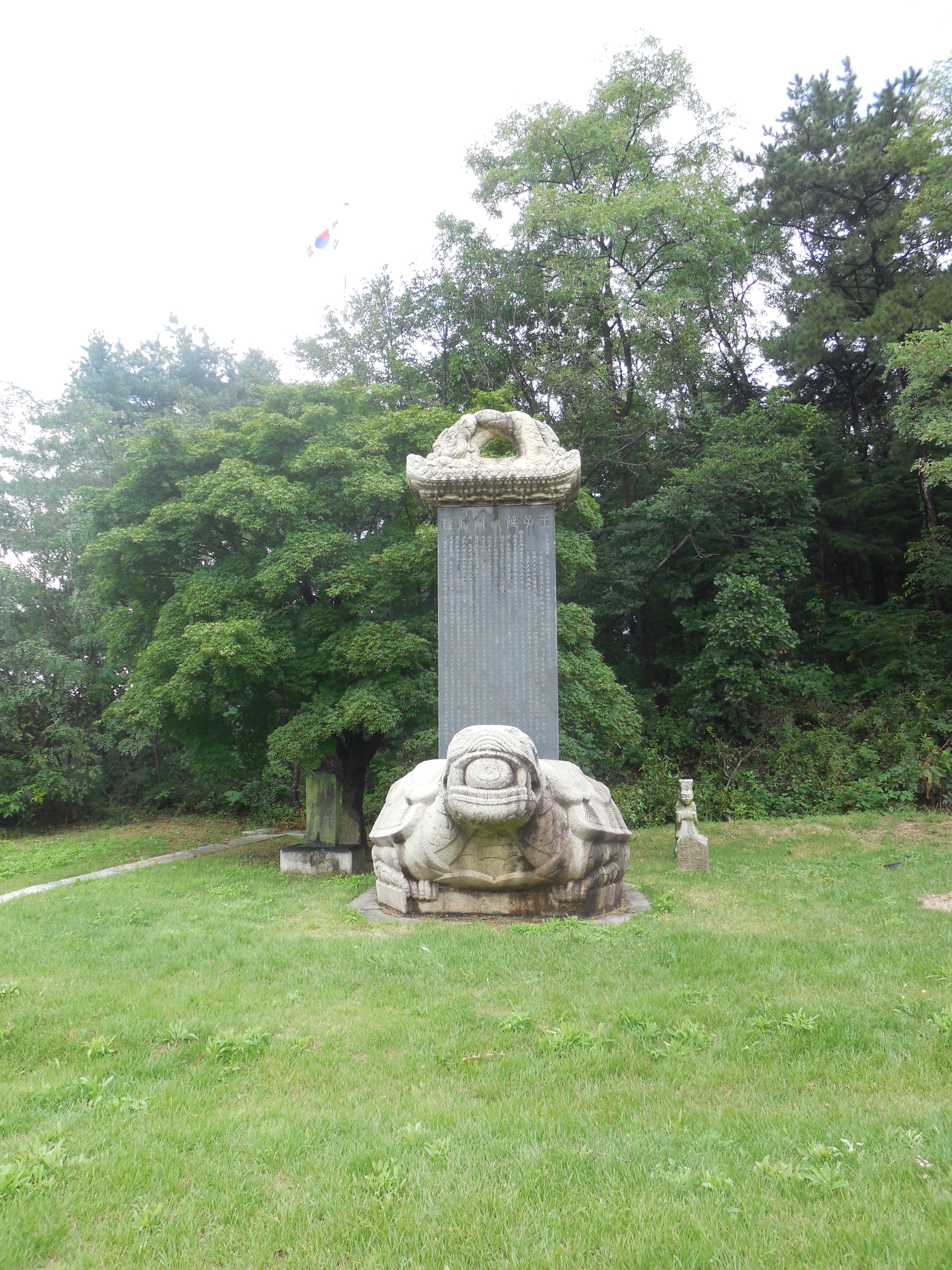 Sindobi Stele to Prince Yeollyeong Yi Hwon, son of Sukjong of Joseon.